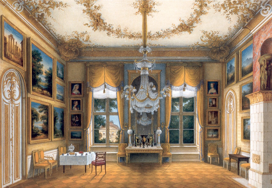 The "Yellow salon" of Queen Luise in the city palace Potsdam, Germany